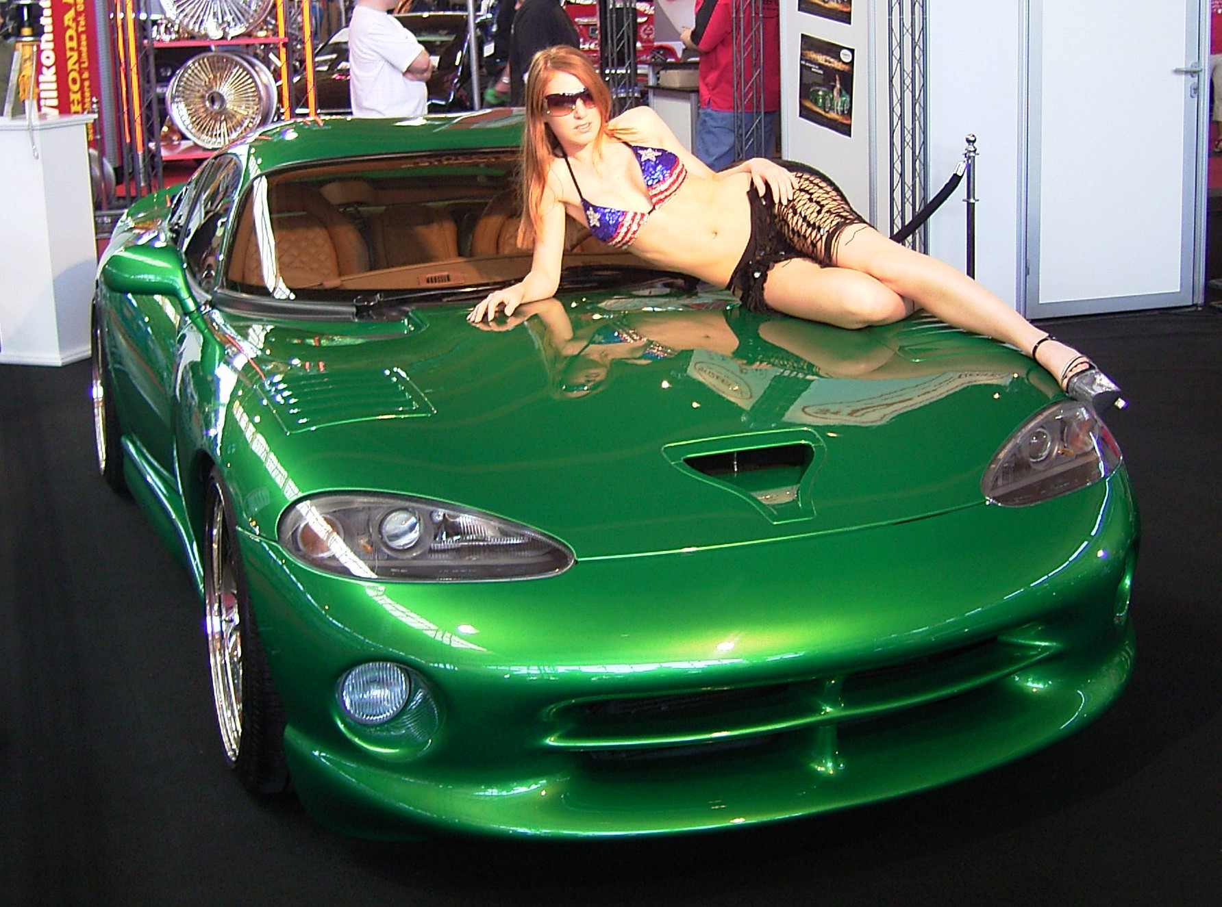 Dodge Viper